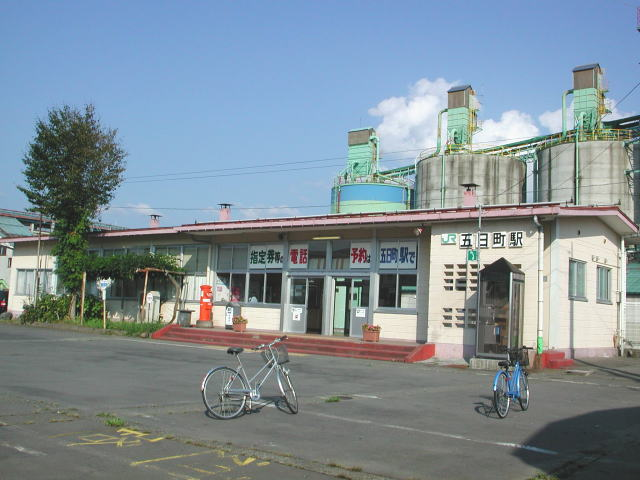 Itsukamachi Station, Minaiuonuma, Niigata, Japan